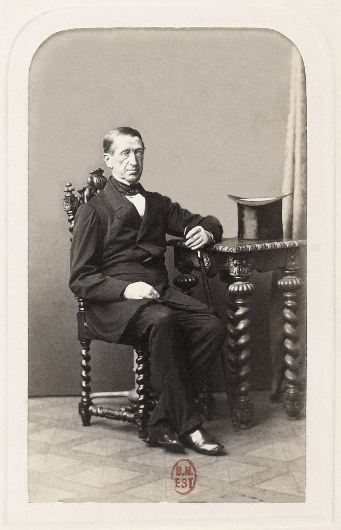 Rudolf von Auerswald (1795 - 1866), civil officer, minister and minister-president of Prussia.